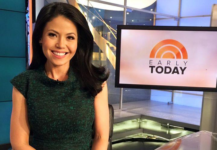 Anchor/Reporter Angie Goff on the set of "Early Today" in December of 2014.